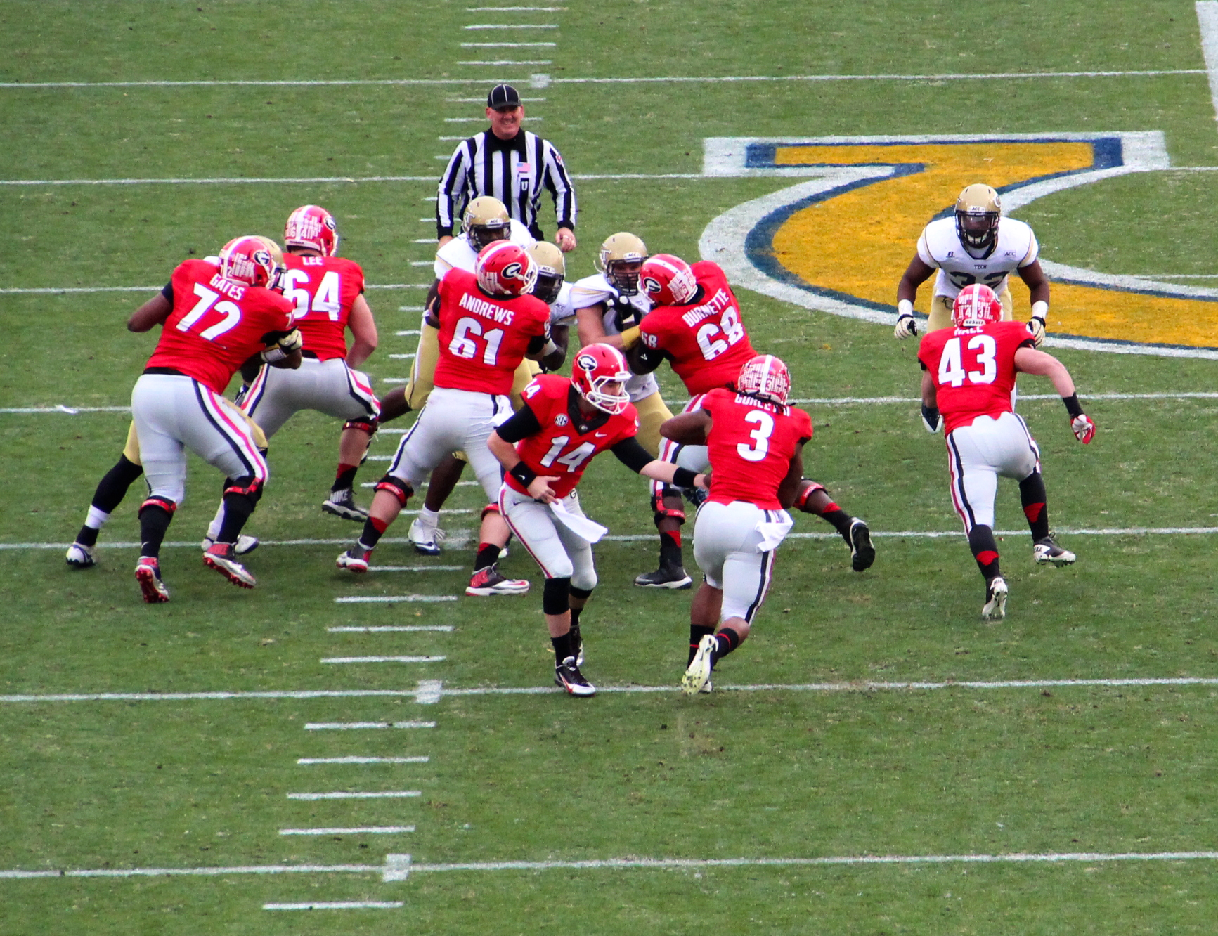 Georgia Bulldogs RB Todd Gurley get the ball during the match vs. Georgia Tech Yellow Jackets